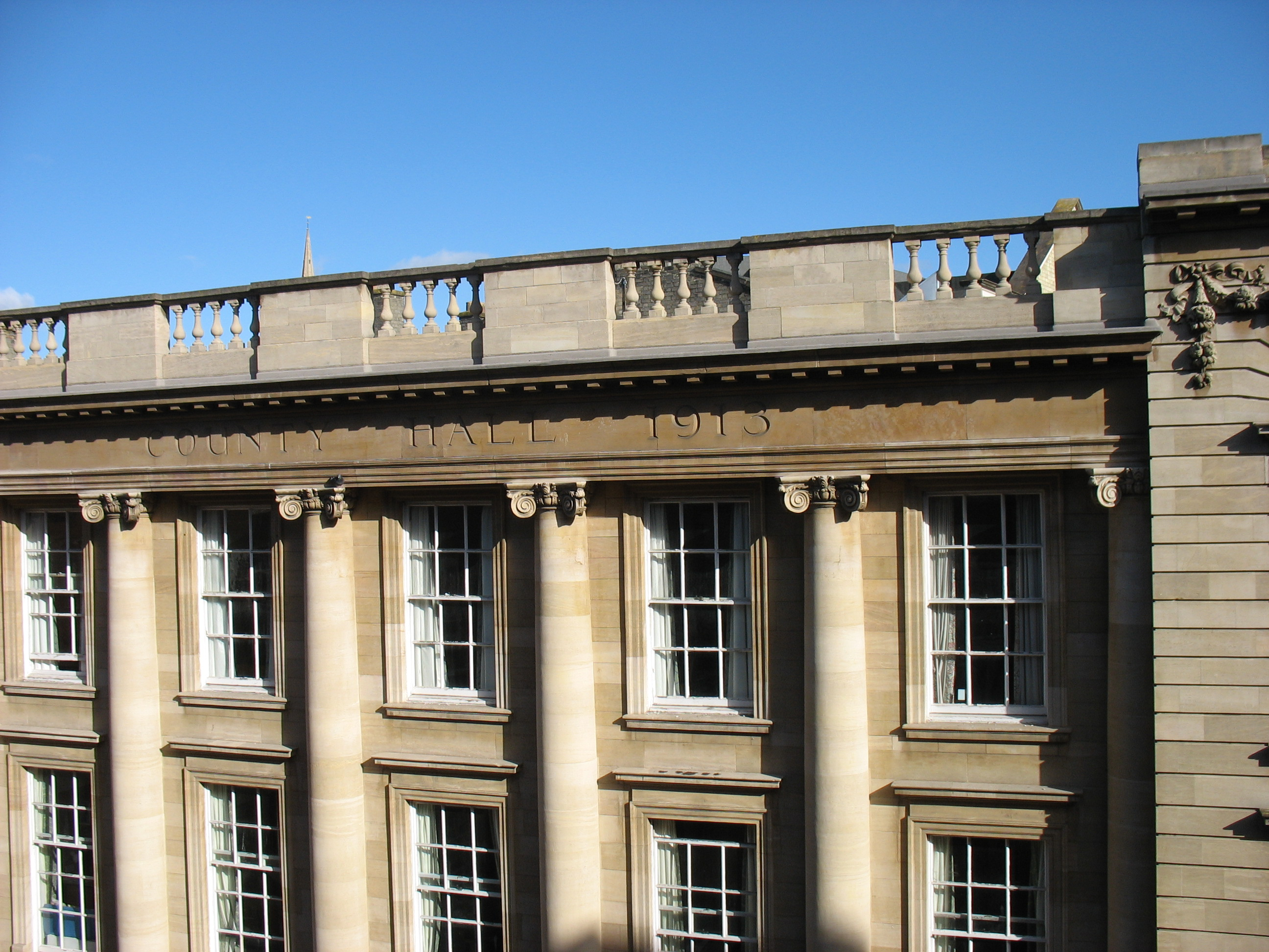 The old Cambridgeshire County Hall The old Cambridgeshire County Hall Just before the First World War, a new County Hall for Cambridgeshire was built in Hobson Street, a narrow and confined site very close to the city centre. I suspect that this soon proved to be a mistake, but it was not until well after the Second War that Shire Hall was built on a larger site just north of Castle Hill. This old Hall is now part of Christ's College. Through one of the balustrades can be seen part of the dome above a large room which was (I assume) the Council Chamber, but which is now used as a lecture theatre. This photo was taken from the third floor of Sussex House, part of Sidney Sussex College and on the opposite side of Hobson Street.